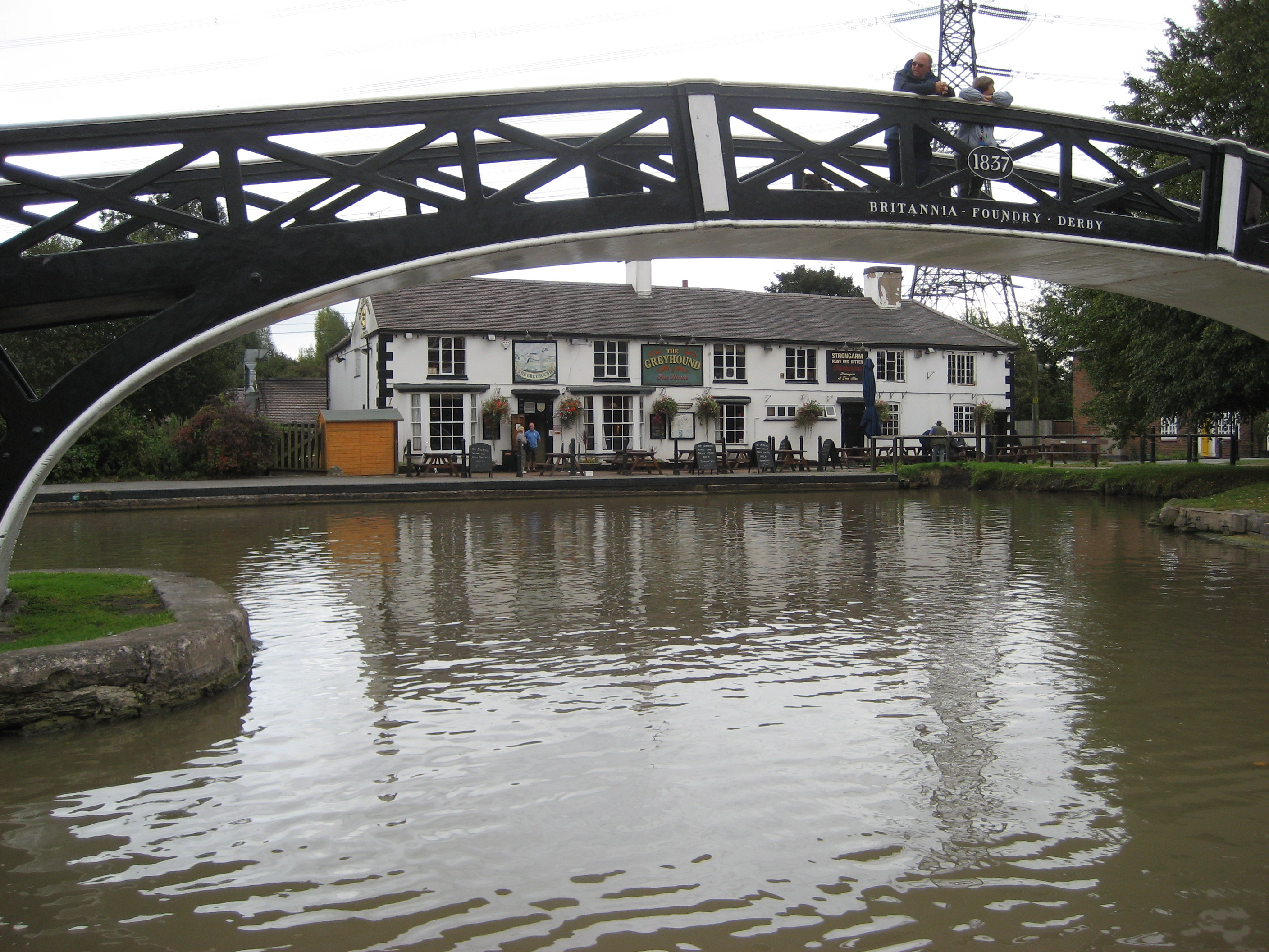 Hawkesbury Junction, also known as Sutton Stop after the name of its first lock keeper, is the junction of the Oxford and Coventry Canals. This view is from the Coventry Canal looking towards the Oxford Canal. The pub beyond the bridge is The Greyhound, which serves excellent beer and pies; the lock is out of sight around the left-hand corner.